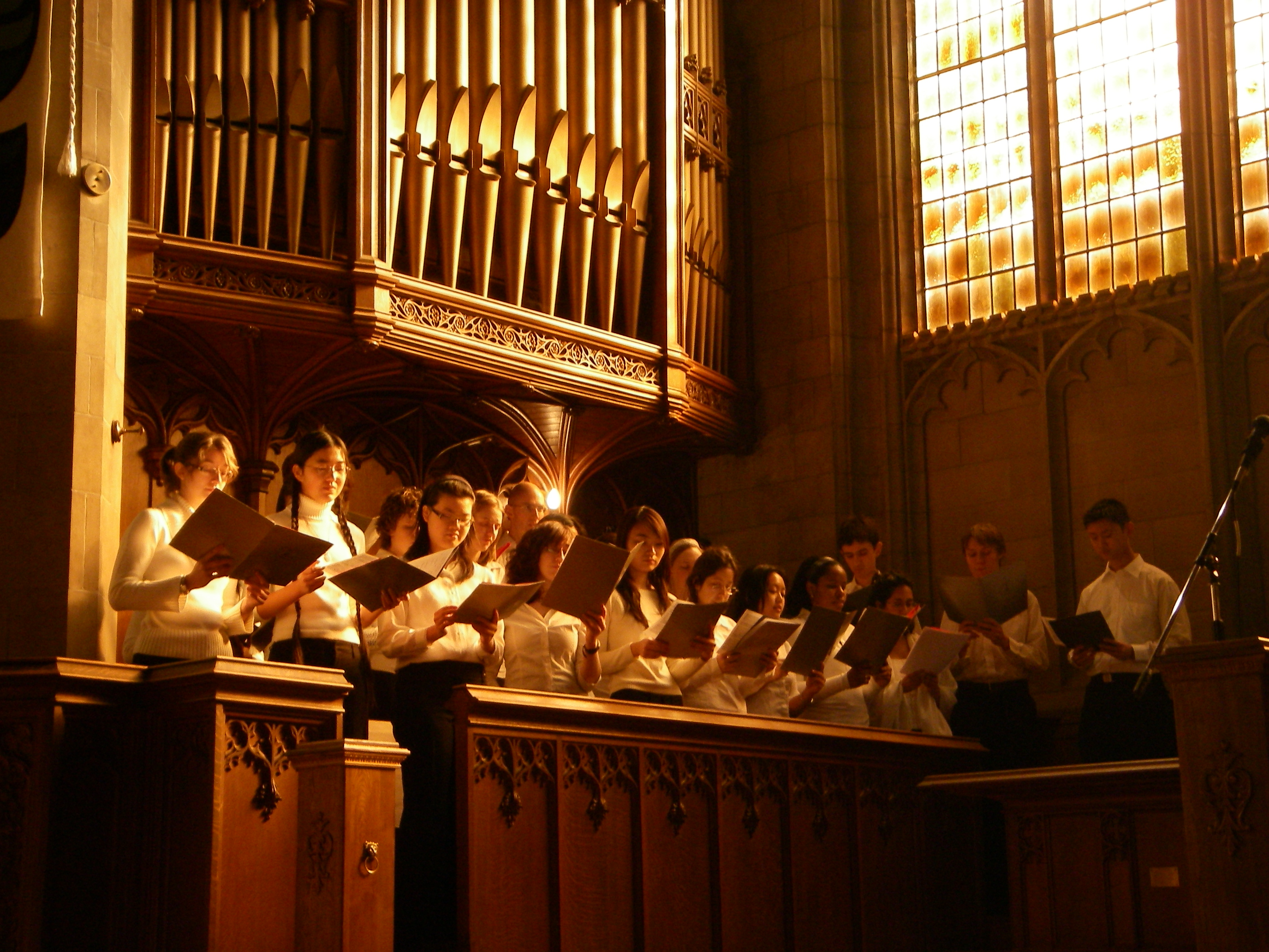 Skule Choir with sunlight streaming into Knox Chapel, taken during Christmas concert performance led by Malcolm McGrath